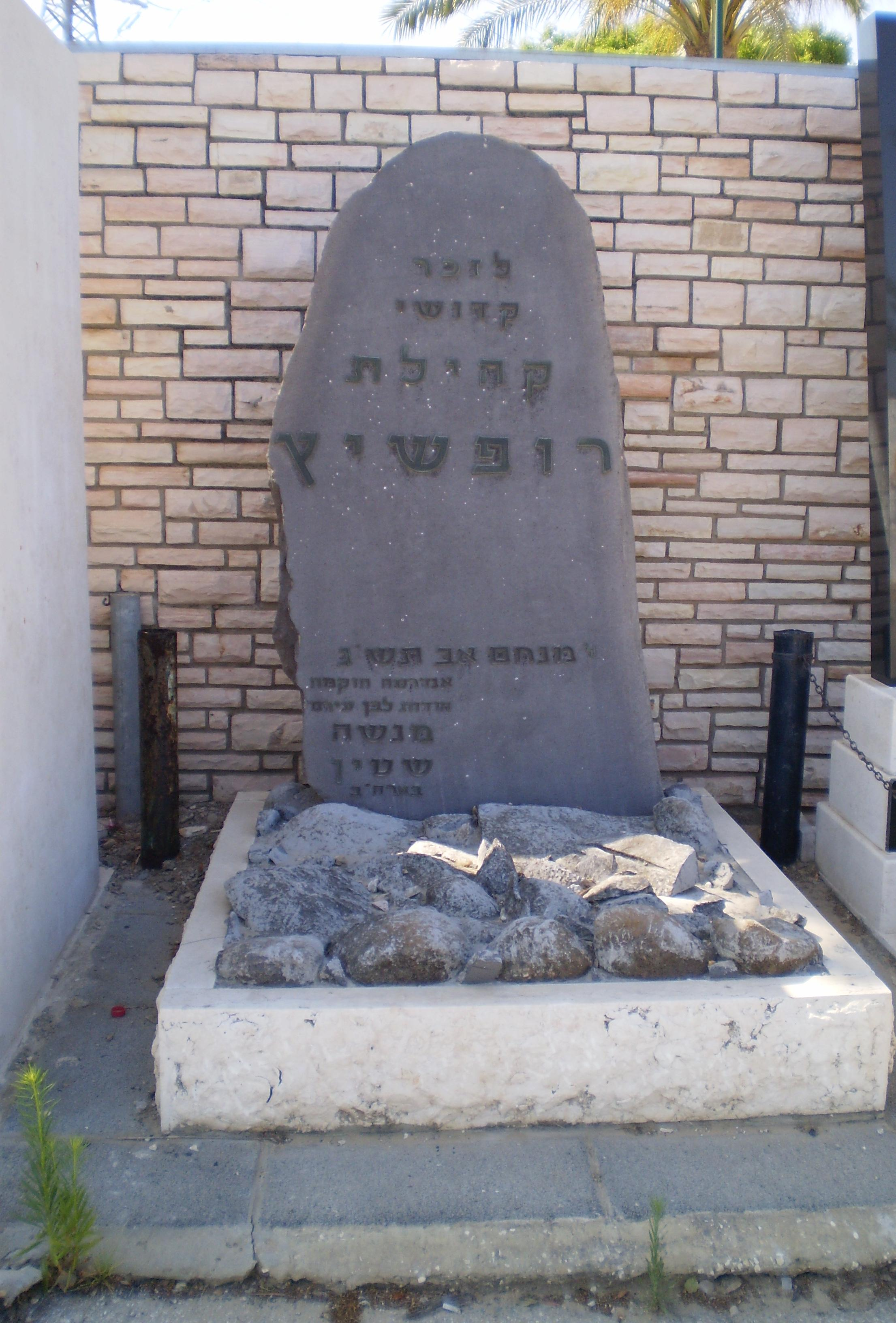 Ropczyce memorial at Holon Cemetery